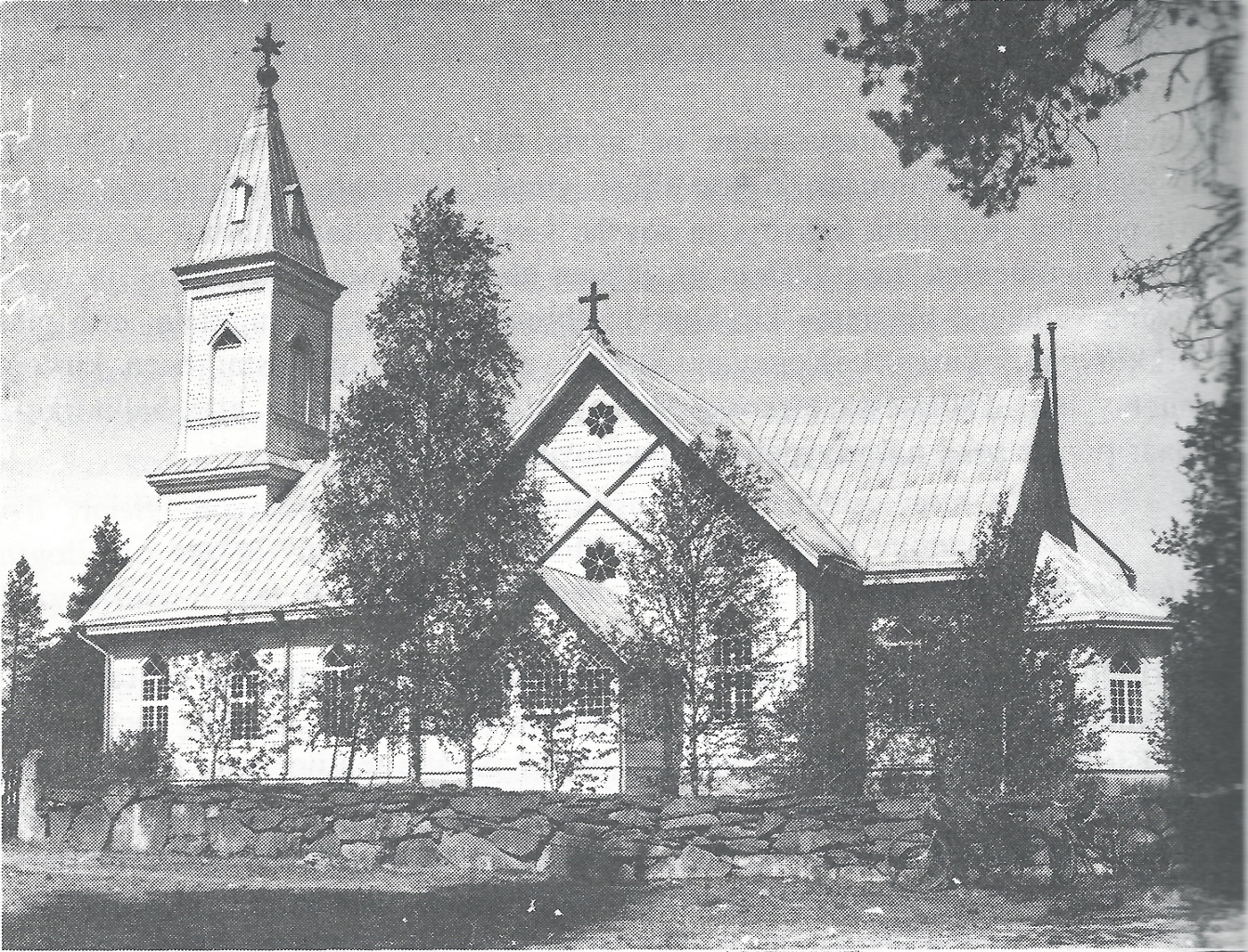 Leivonmäki old church in Finland. The church was built in 1873 and it was destroyed in a fire in 1958.